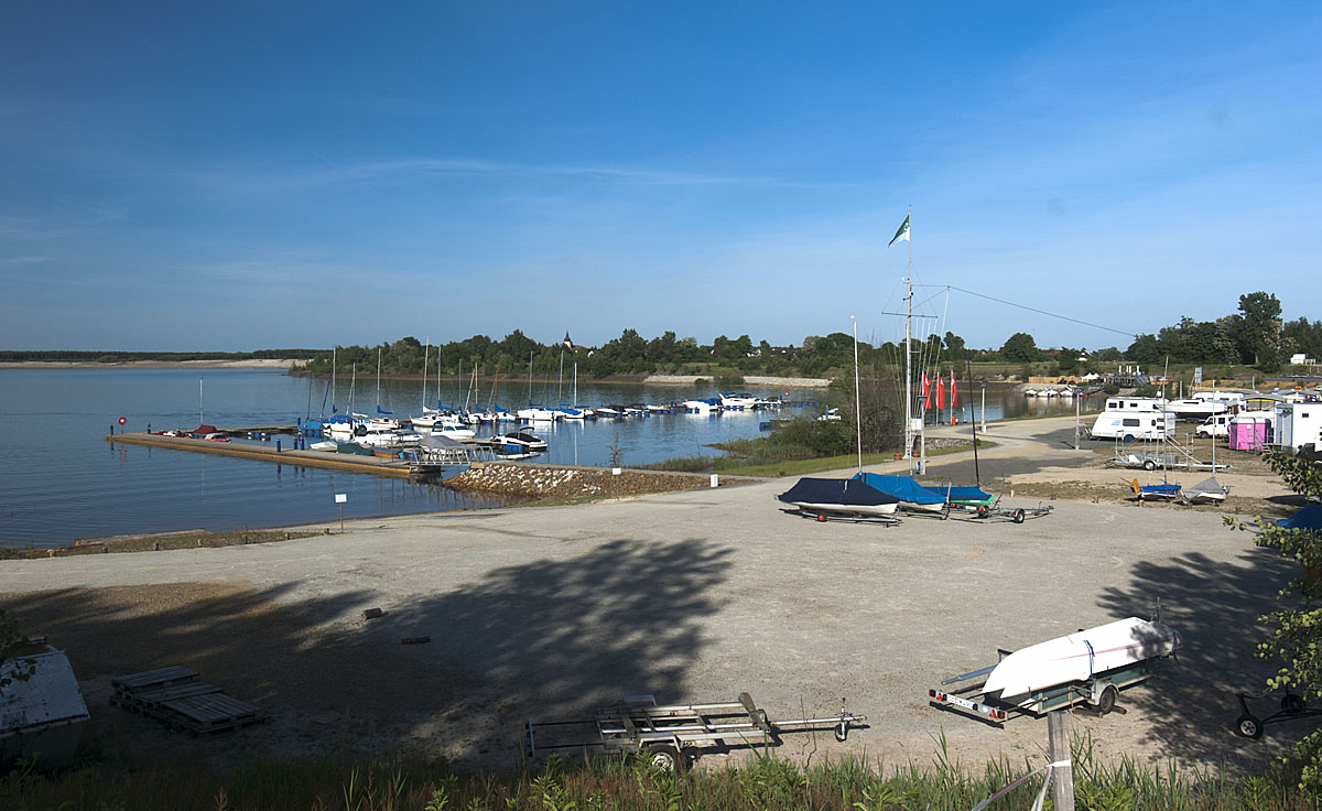 South Beach of Lake Geierswalde, Saxony, Germany